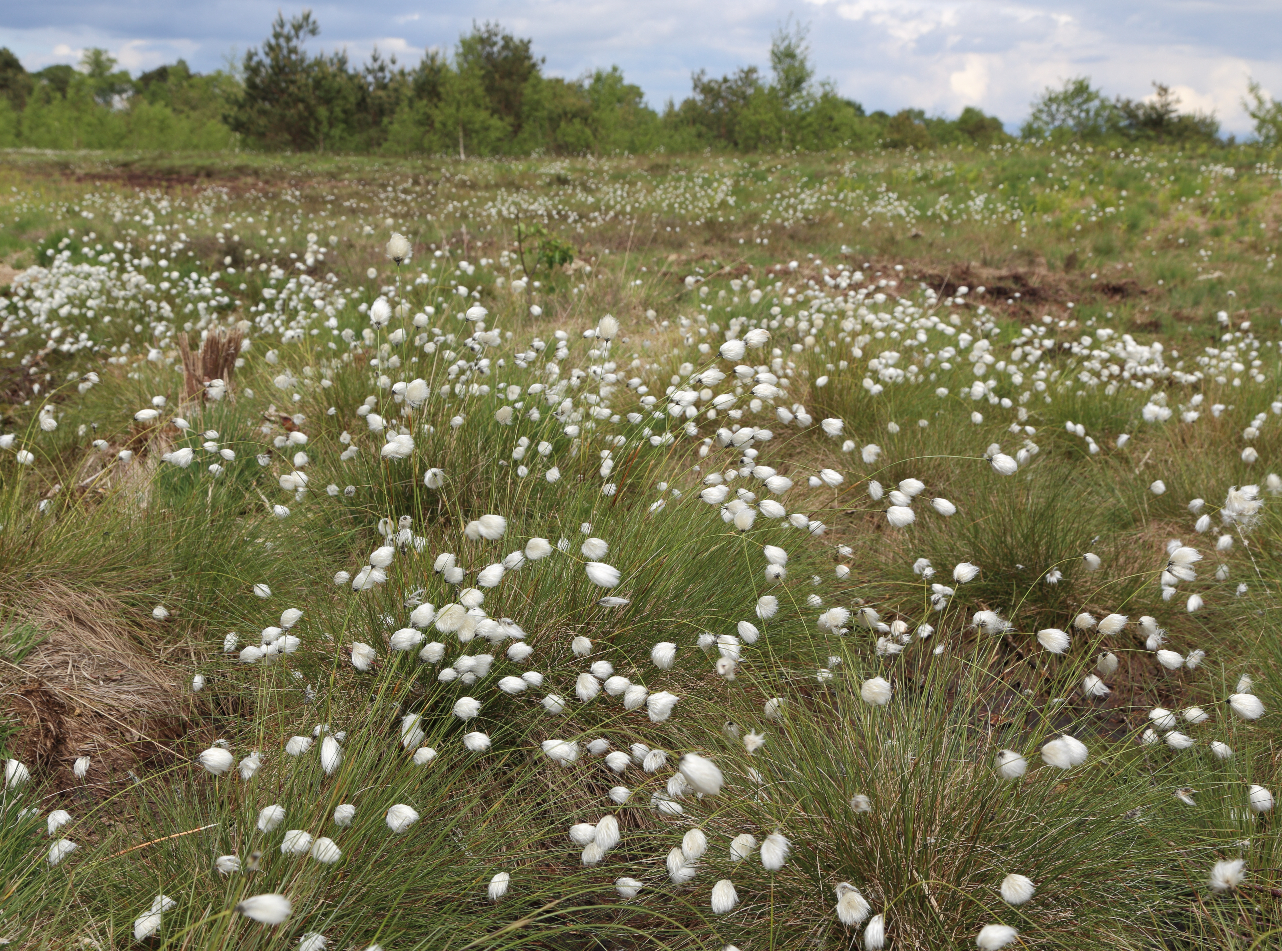 Hare's-tail cottongrass (Eriophorum vaginatum) at the nature reserve Hahnenmoor, a large bog area near Dohren, Landkreis Emsland, Lower Saxony, Germany.